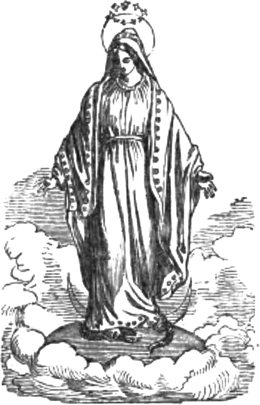 Image from Catholic Hymns, 1860